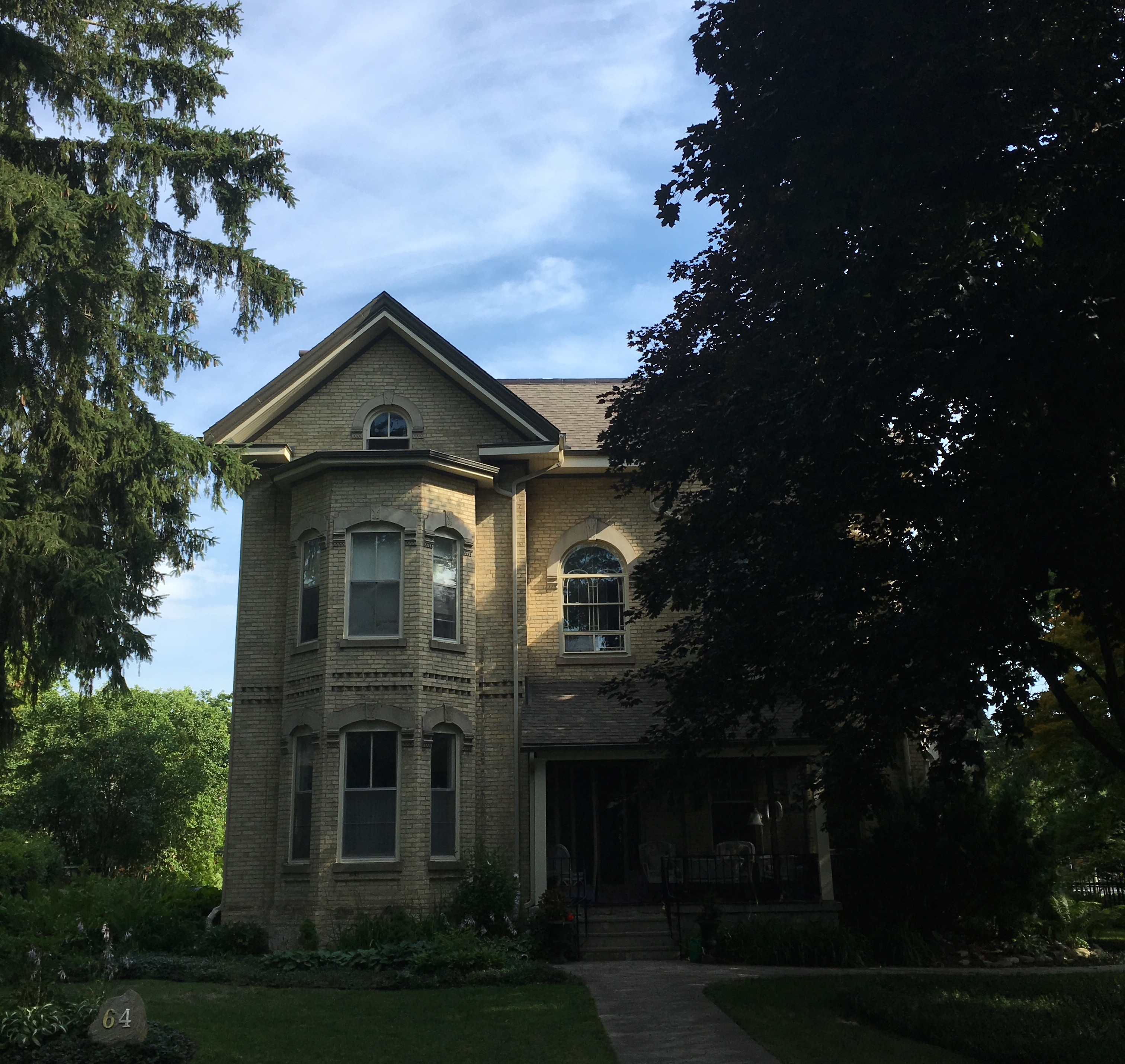 64 Elmwood Avenue East, London, Ontario